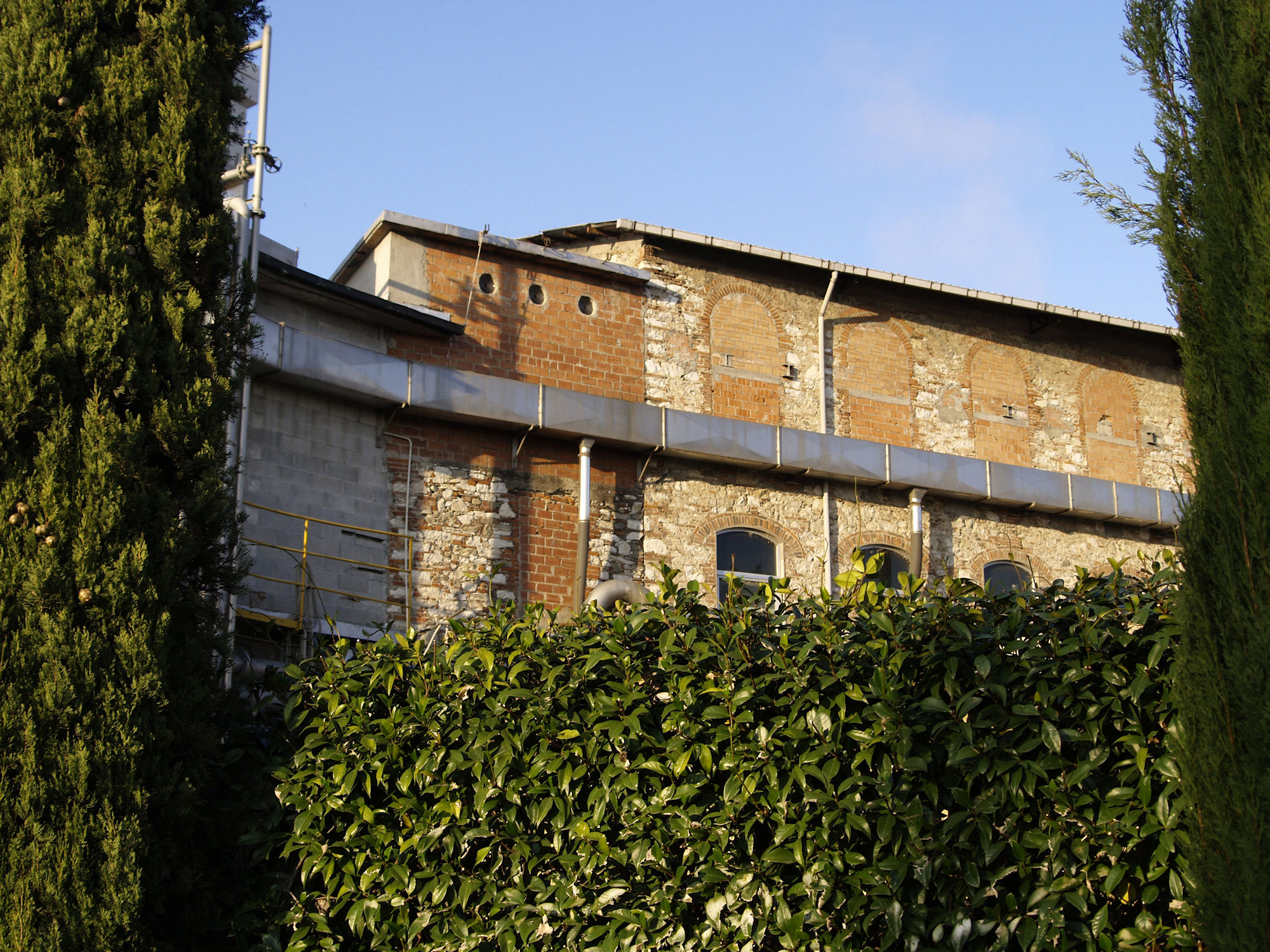 old facilities of the icP factory